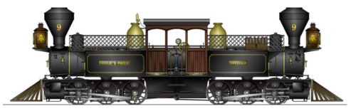 TNR Fairlie illustration; TRClarke; Sole author and copyright holder